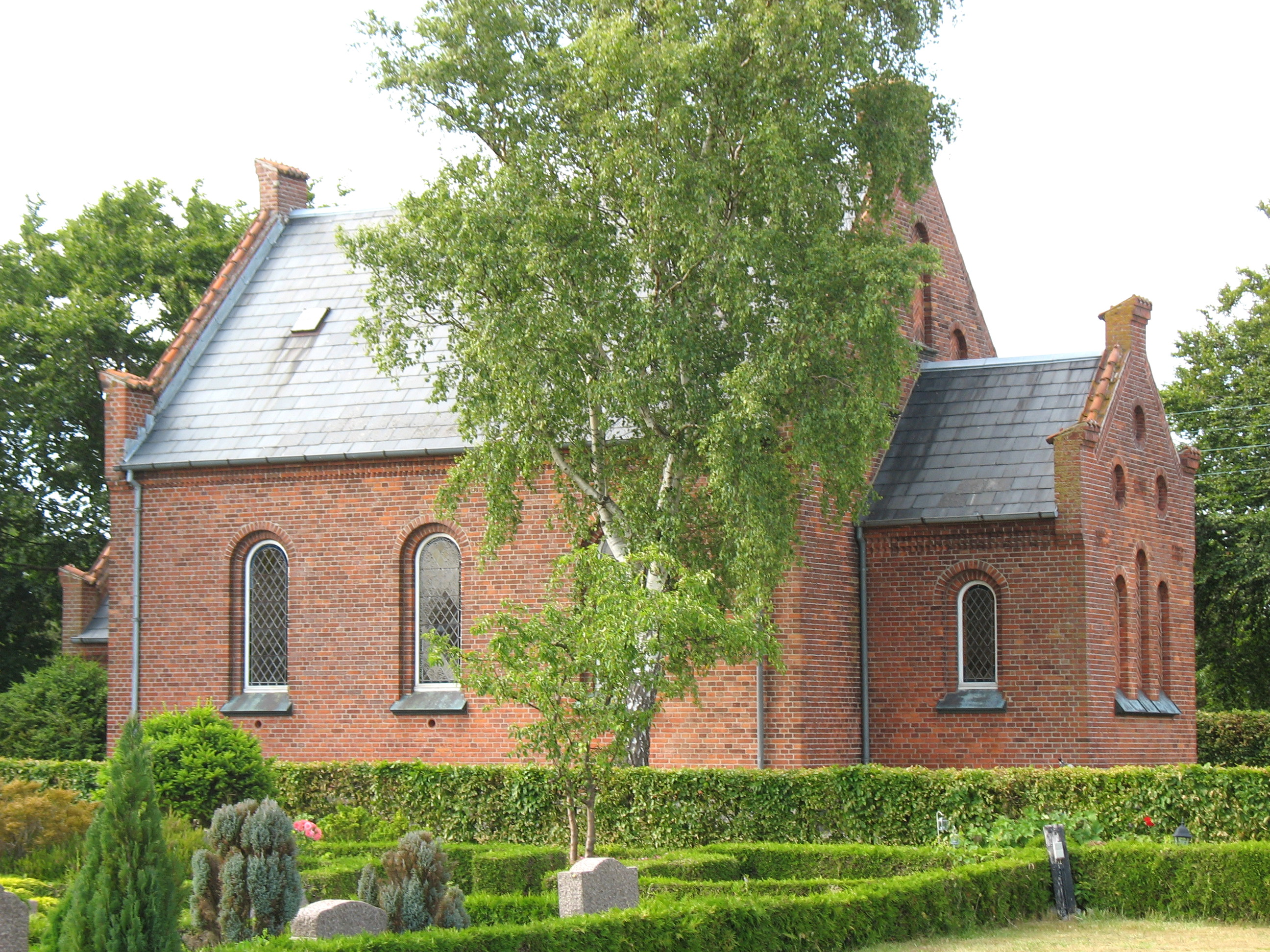 The church "Langø Kirke" is located in the fishing village "Langør". The location is direct west of the town "Nakskov" on the island Lolland in east Denmark.